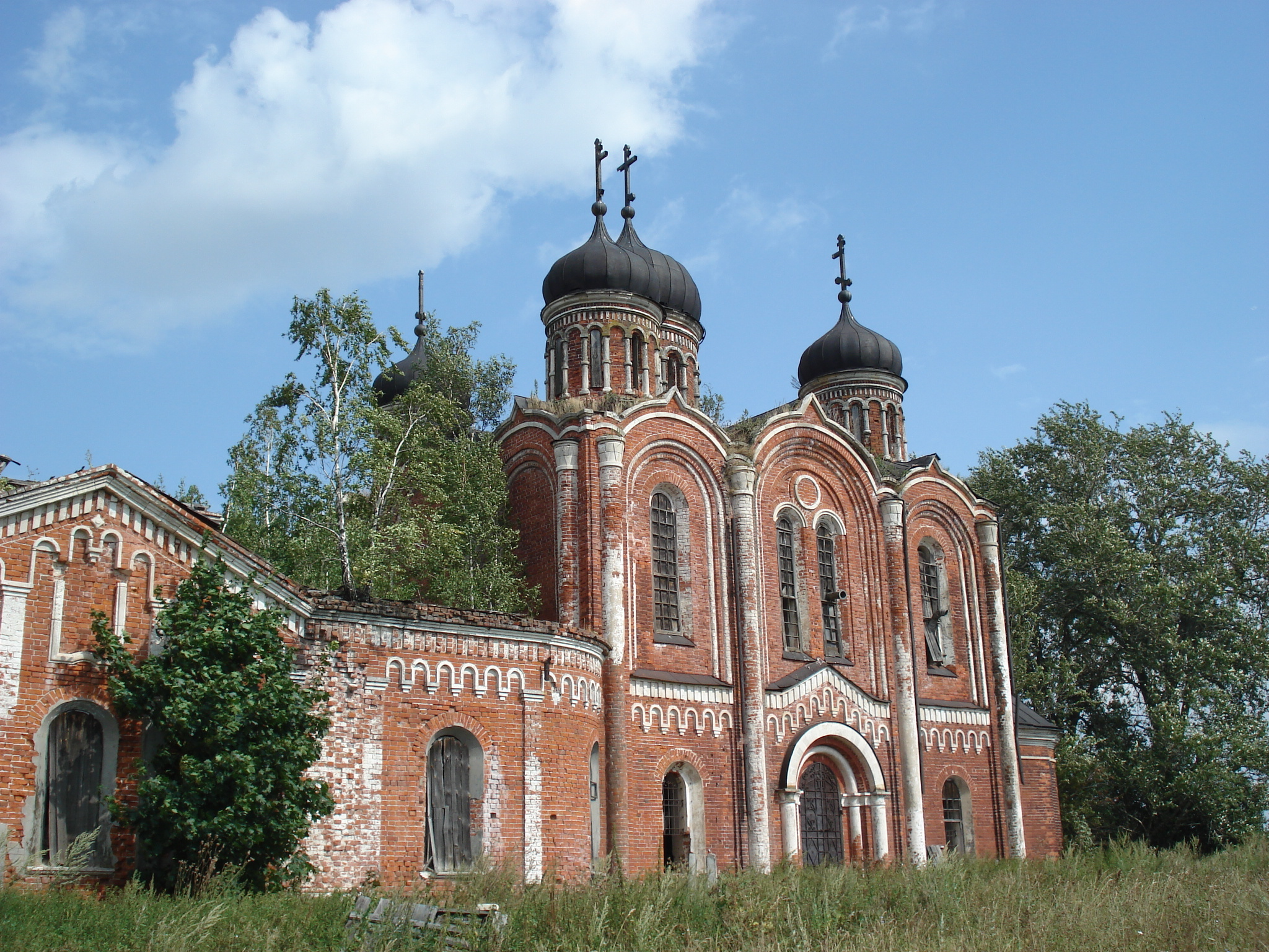 Trinity Church. XIX century. Krasno, Vacha region Nizhny Novgorod Oblast